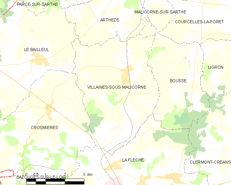 Map of French municipality